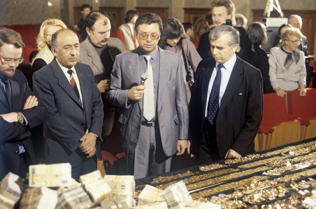 “”. Values confiscating from high-ranking bribetakers shown at a press conference of the investigation team of the USSR Public Prosecution Office enquiring into the case of the official mafia in the Uzbek SSR. Moscow. 1988.